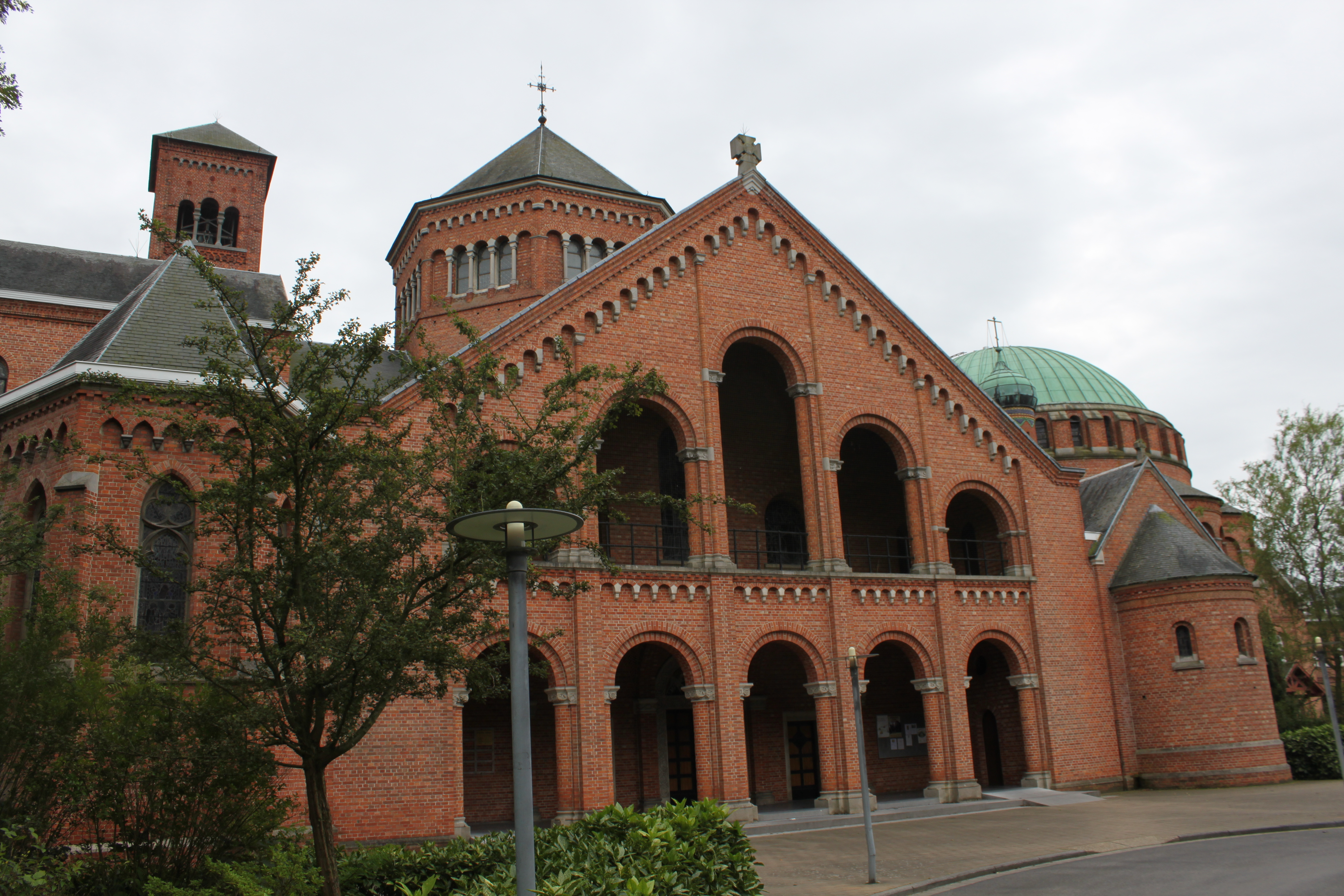 Sint-Andriesabdji, Zevenkerken, is a Benedictine Abbey founded in 1902. The monastic church was built in 1907 (consecrated 1910), though some other parts are later (c.1925).